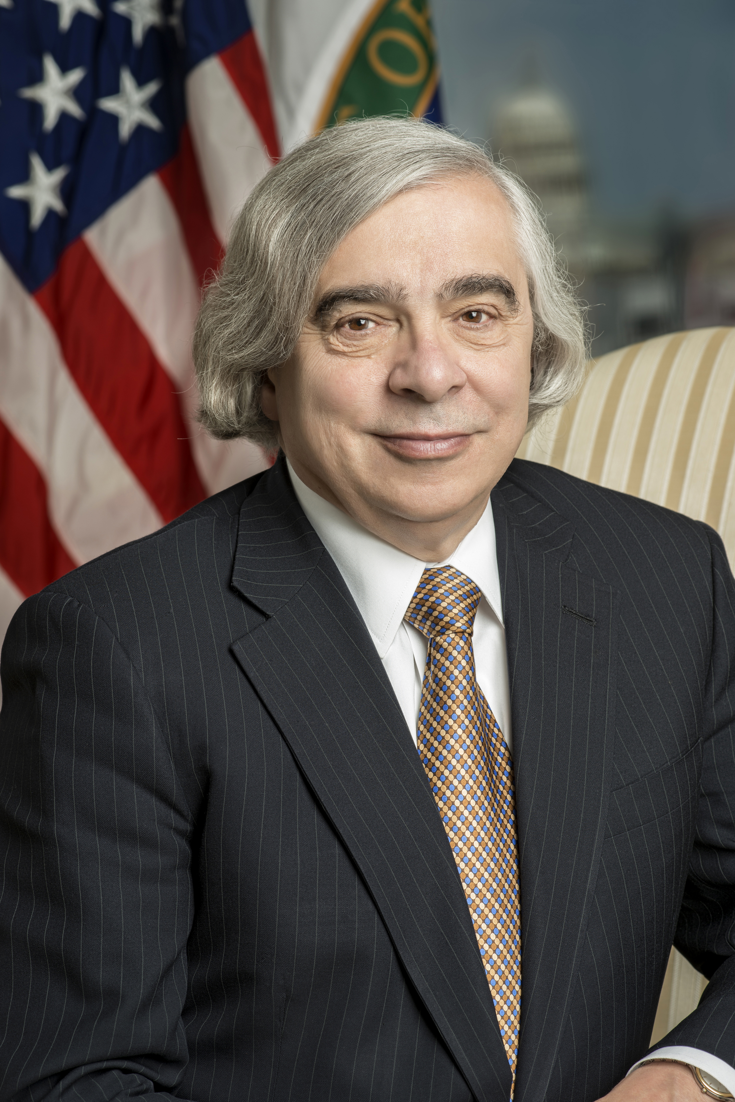 Official photograph of United States Secretary of Energy Ernest Moniz